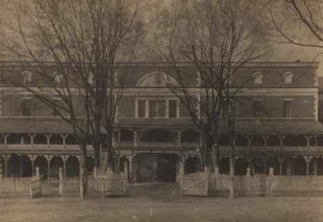 Main building of the Wetumpka Prison in Elmore County, Alabama. A new prison, built north of this site, was completed in December 1942 and is known in 2011 as the Julia Tutwiler Prison for Women.